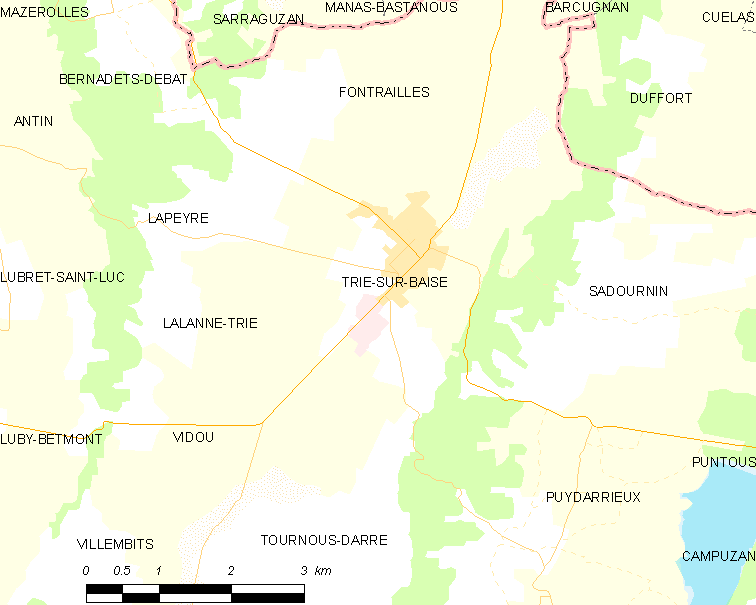 Map of French municipality